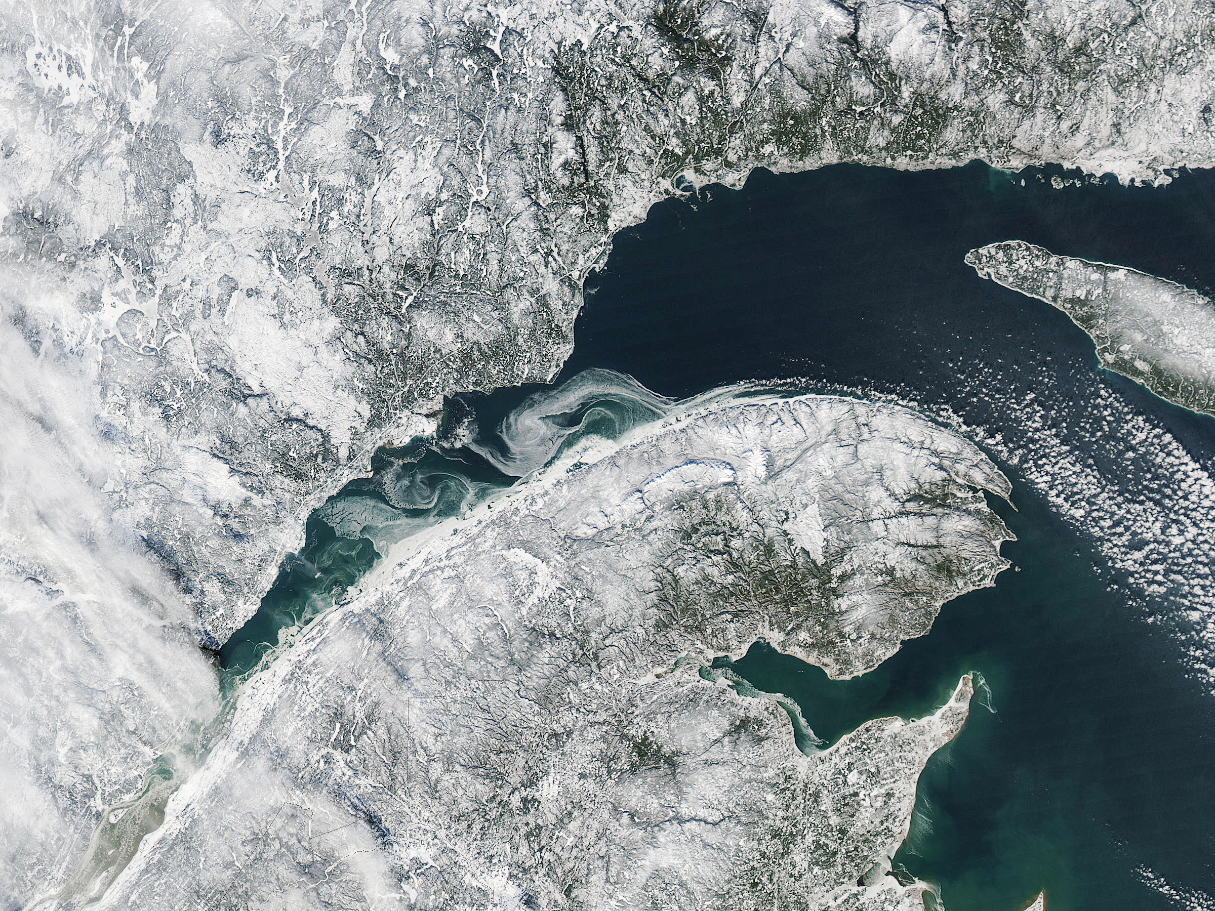 Image taken by the Moderate Resolution Imaging Spectroradiometer (MODIS) on NASA’s Aqua satellite. Courtesy of the MODIS Rapid Response Team at NASA GSFC: The water ranges from black to a rich blue-green tone, its colour intensified by the contrast between it and the winter white landscape around it. The green tones of the river are visible beneath the thin ice, which is semi-transparent. Thicker ice (solid white) is evident along the south shore. The bright white line on the north shore of the river is Highway 138. The road appears to be ice or snow-covered along this stretch, but Transports Québec reported that most of the road was clear.